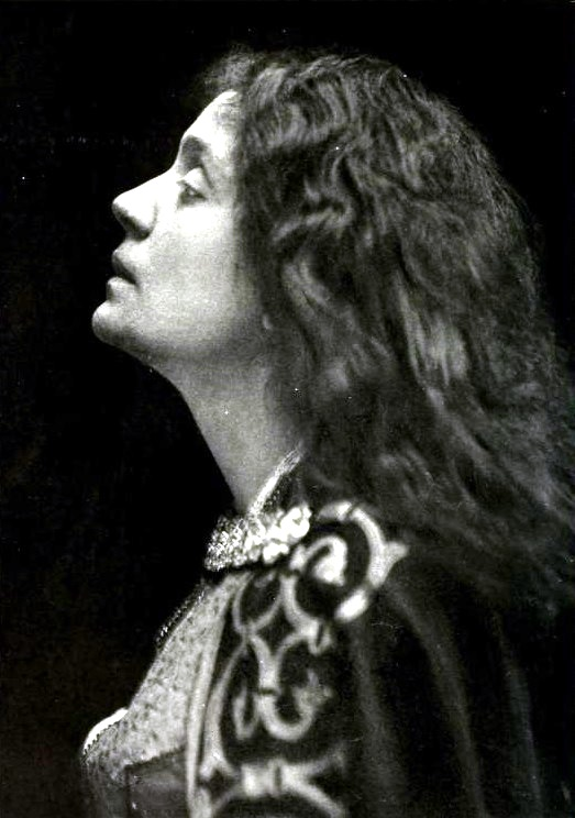 Eleonora Duse performing Francesca da Rimini, Teatro Costanzi, Rome, 9th December 1901.